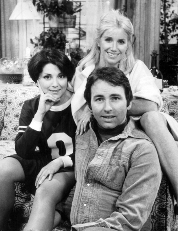 Publicity photo from Three's Company series premiere. Pictured are Joyce DeWitt, John Ritter and Suzanne Somers.